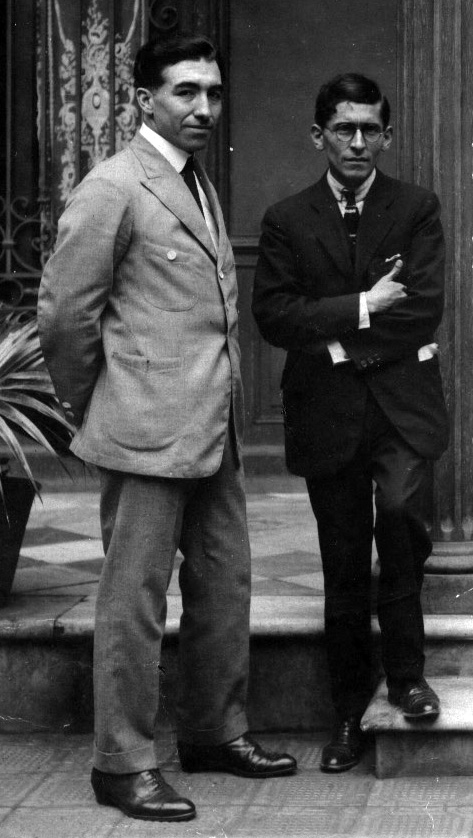 Ladislao F. Meza with José Carlos Mariátegui in Lima, 1924.